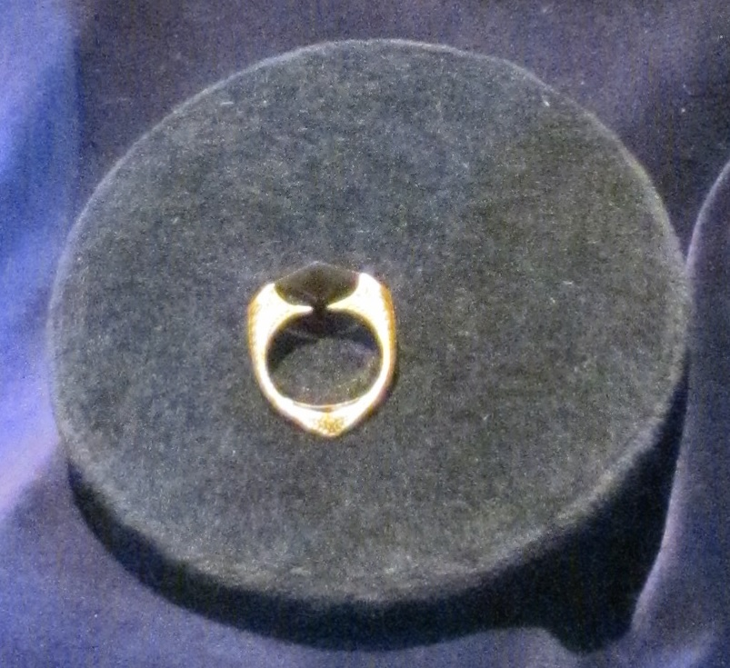 See title